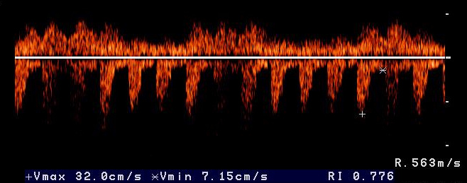 Raised resistance index in the kidney of a cat with CNF